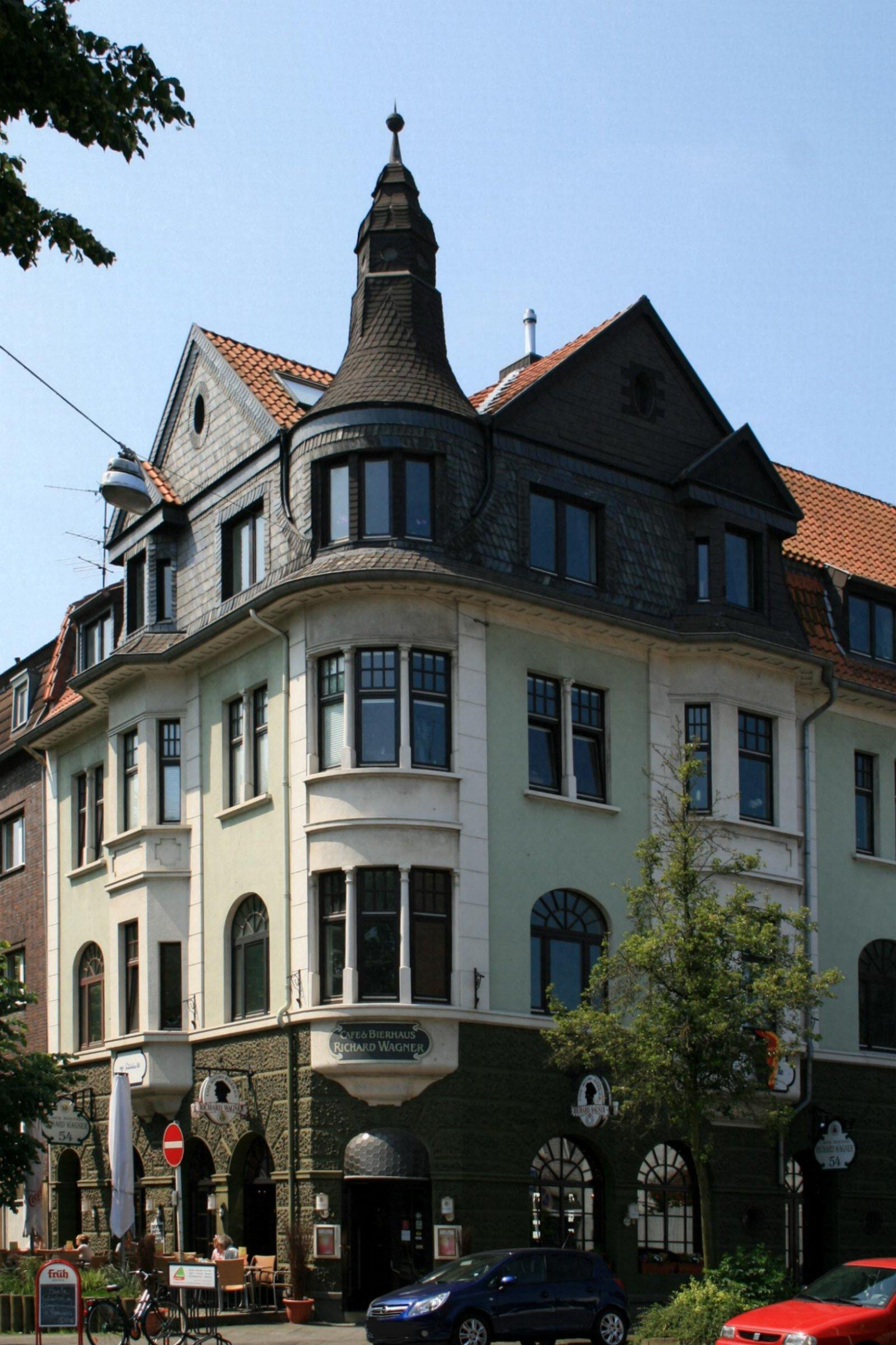 Cultural heritage monument No. R 004 in Mönchengladbach